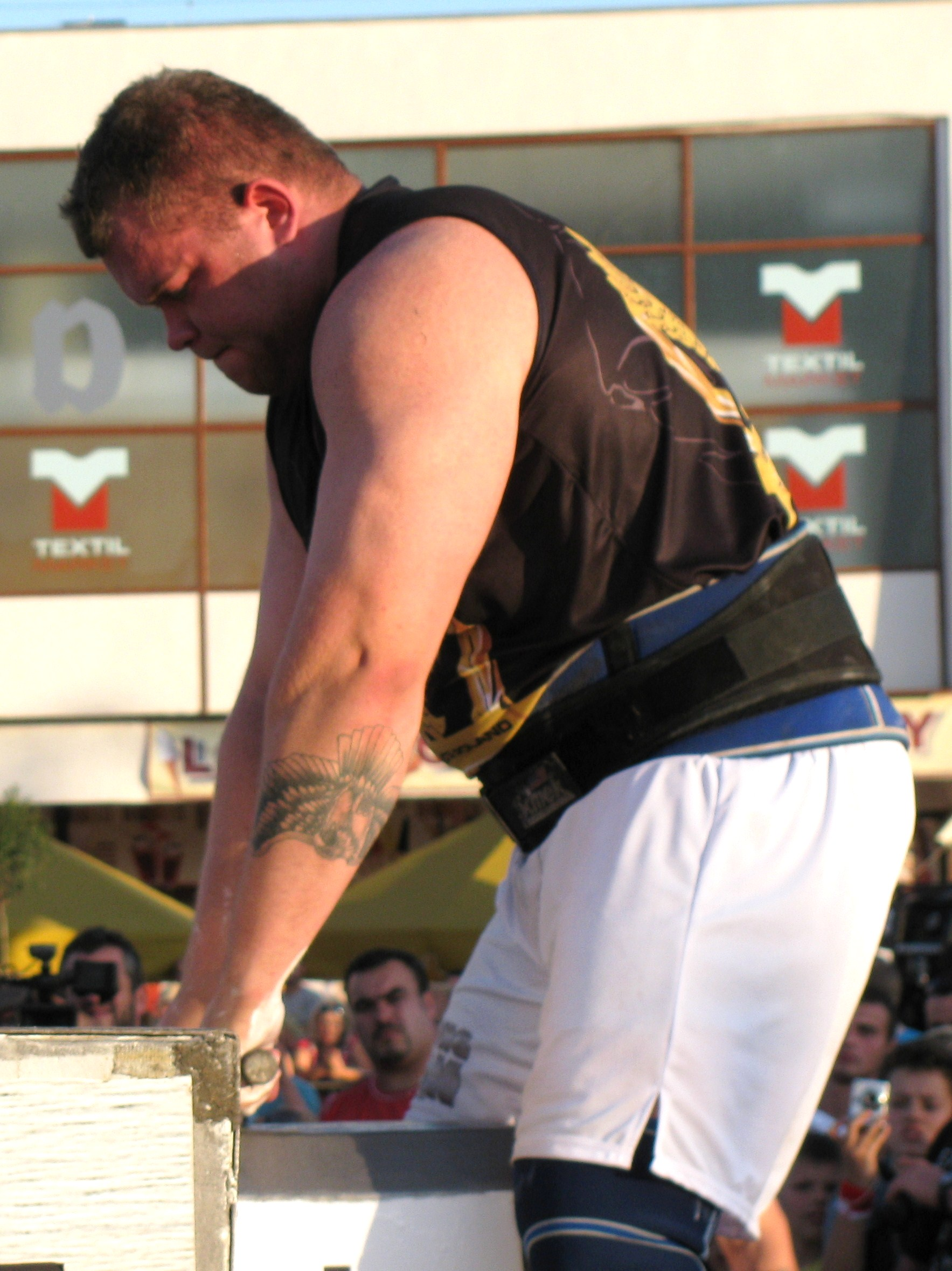 Stefán Sölvi Pétursson at the Power Stairs.